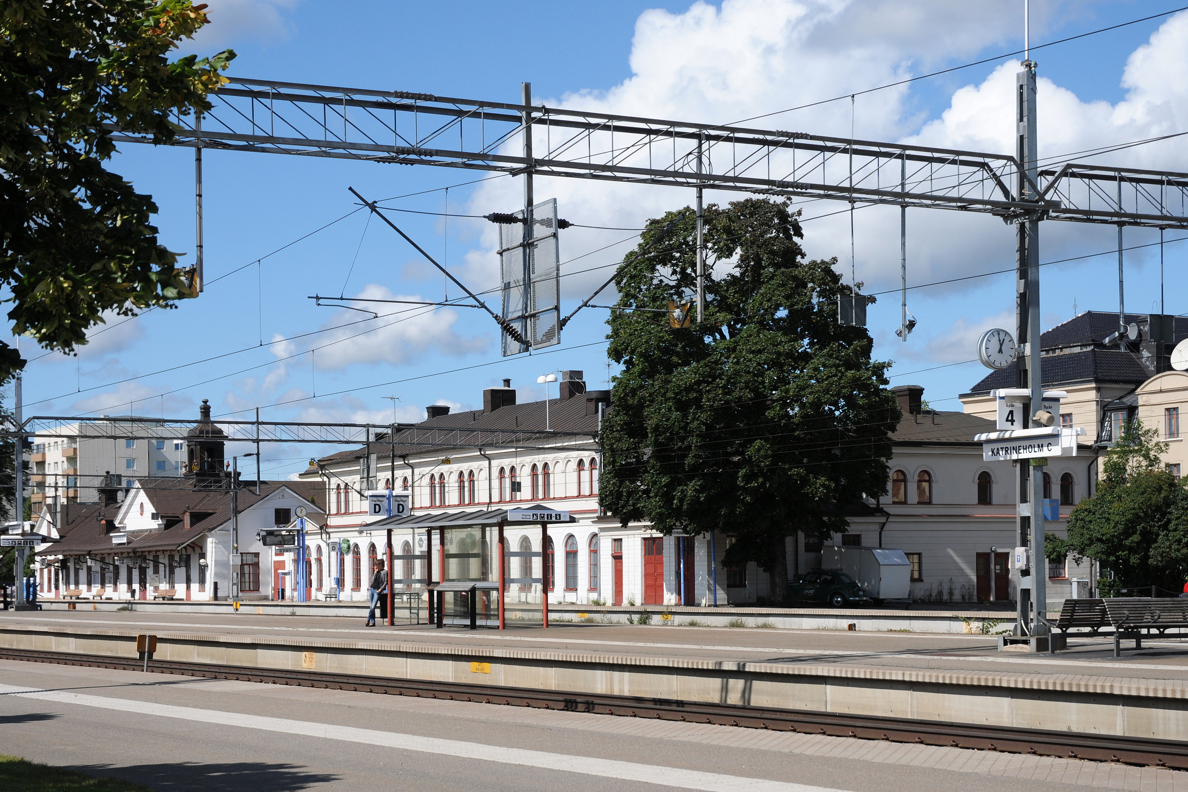 Katrineholm railway station